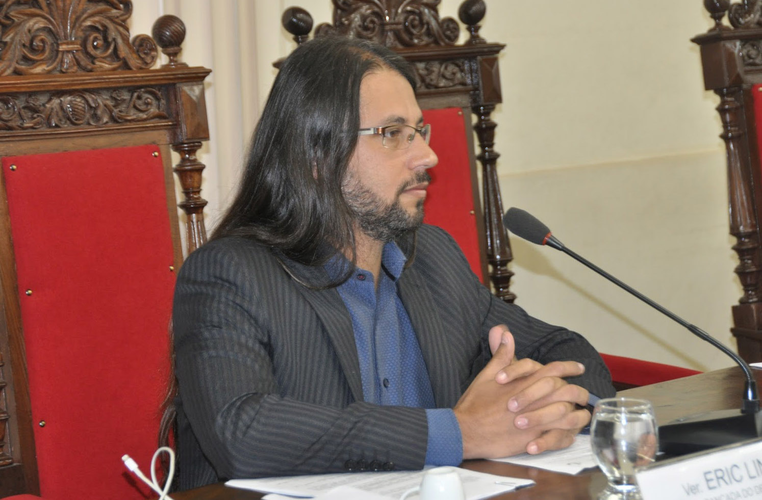 picture in Uruguaiana